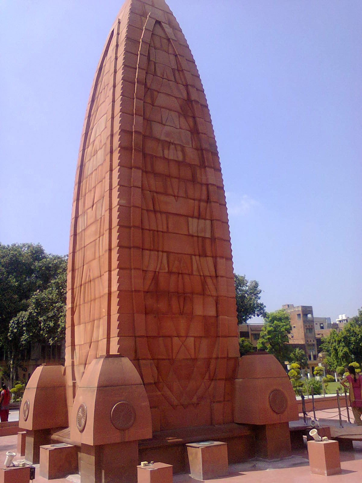 Jalian Wala Bagh Memorial ಕನ್ನಡ: ಜಲಿಯನ್ ವಾಲಾ ಬಾಘ್ ಸ್ಮರಣ ಪುಥ್ಥಳಿ